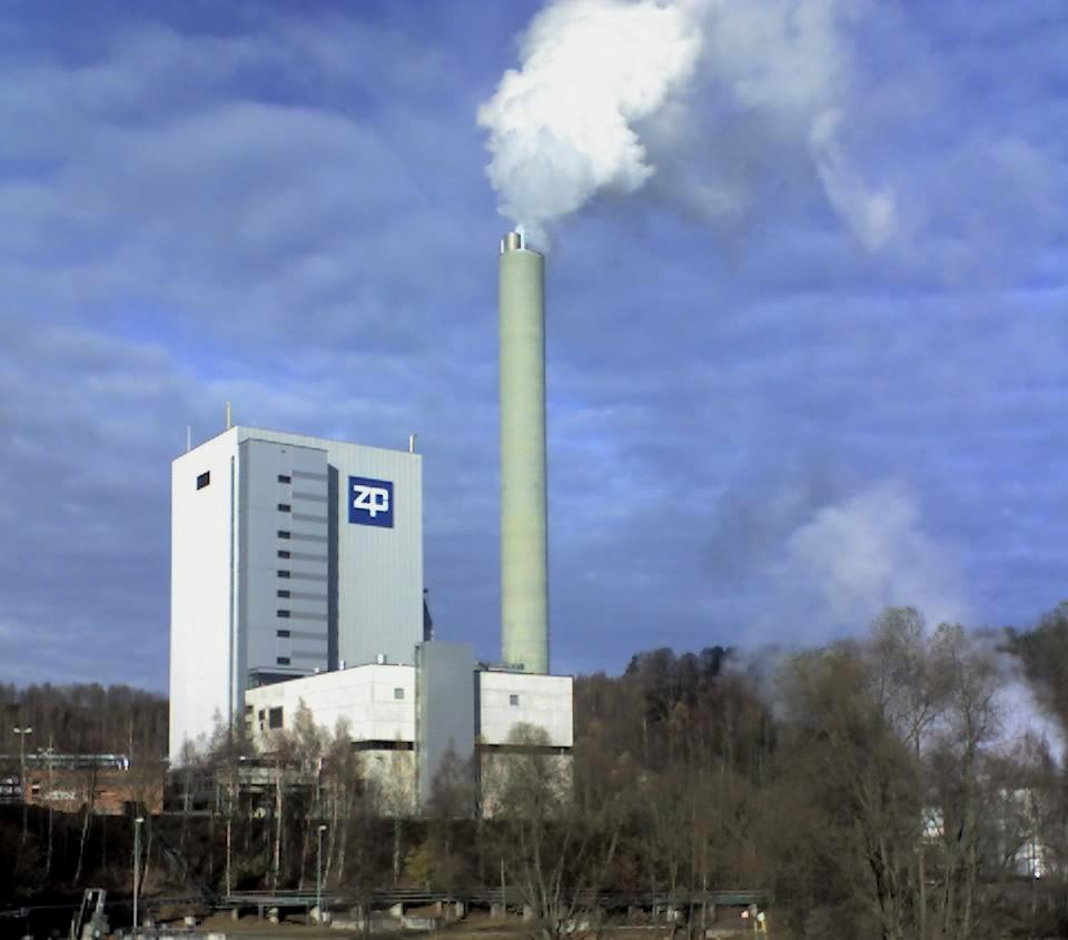 The ZPR at Blankenstein